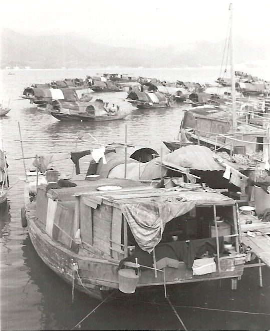 boats in Victoria Harbour